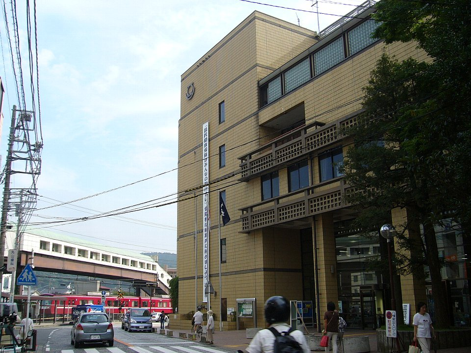 Zushi City Hall in Kanagawa Prefecture, Japan